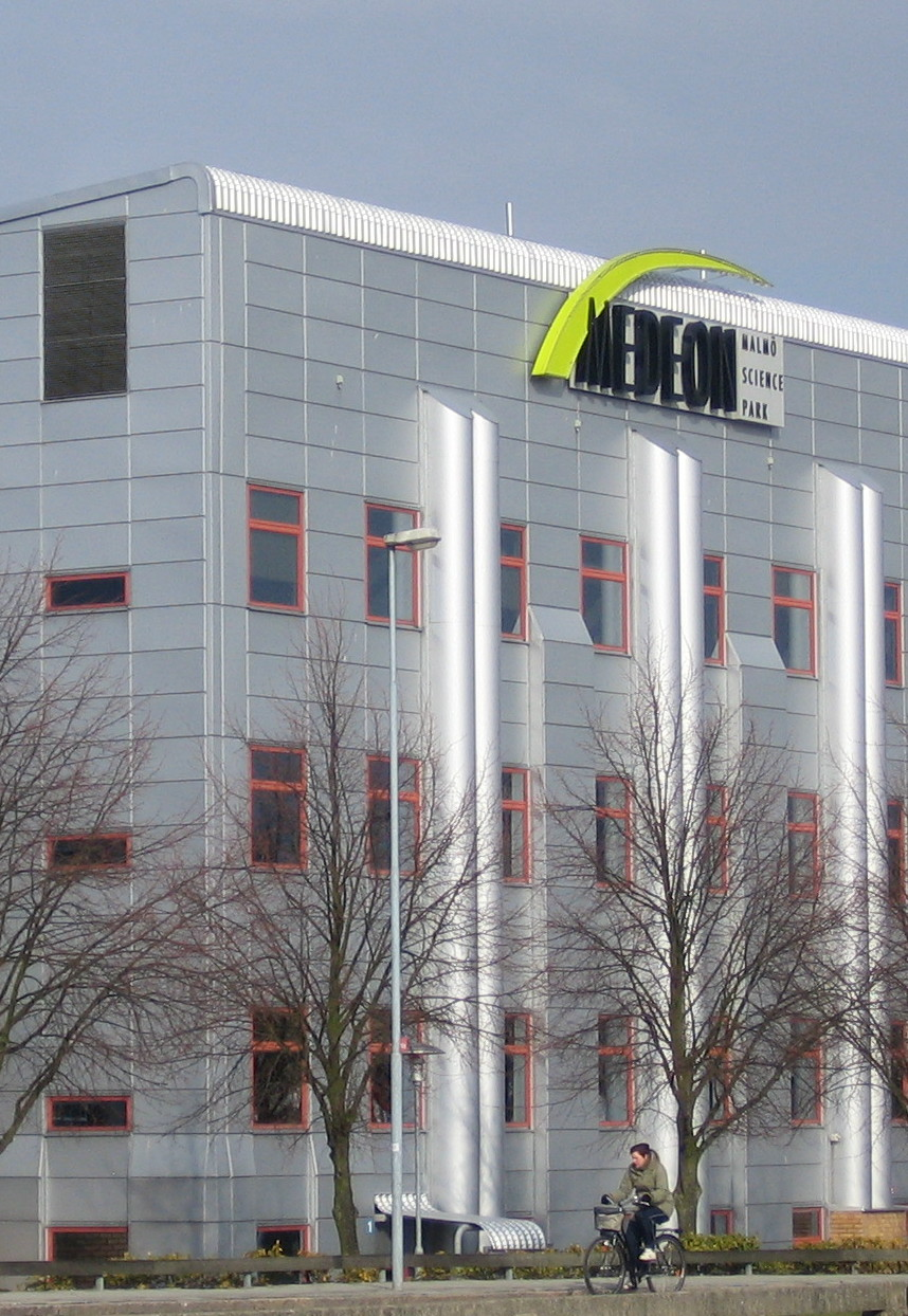 Medeon Science center in the Flensburg district, Malmö.